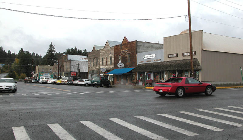 Roslyn, Washington